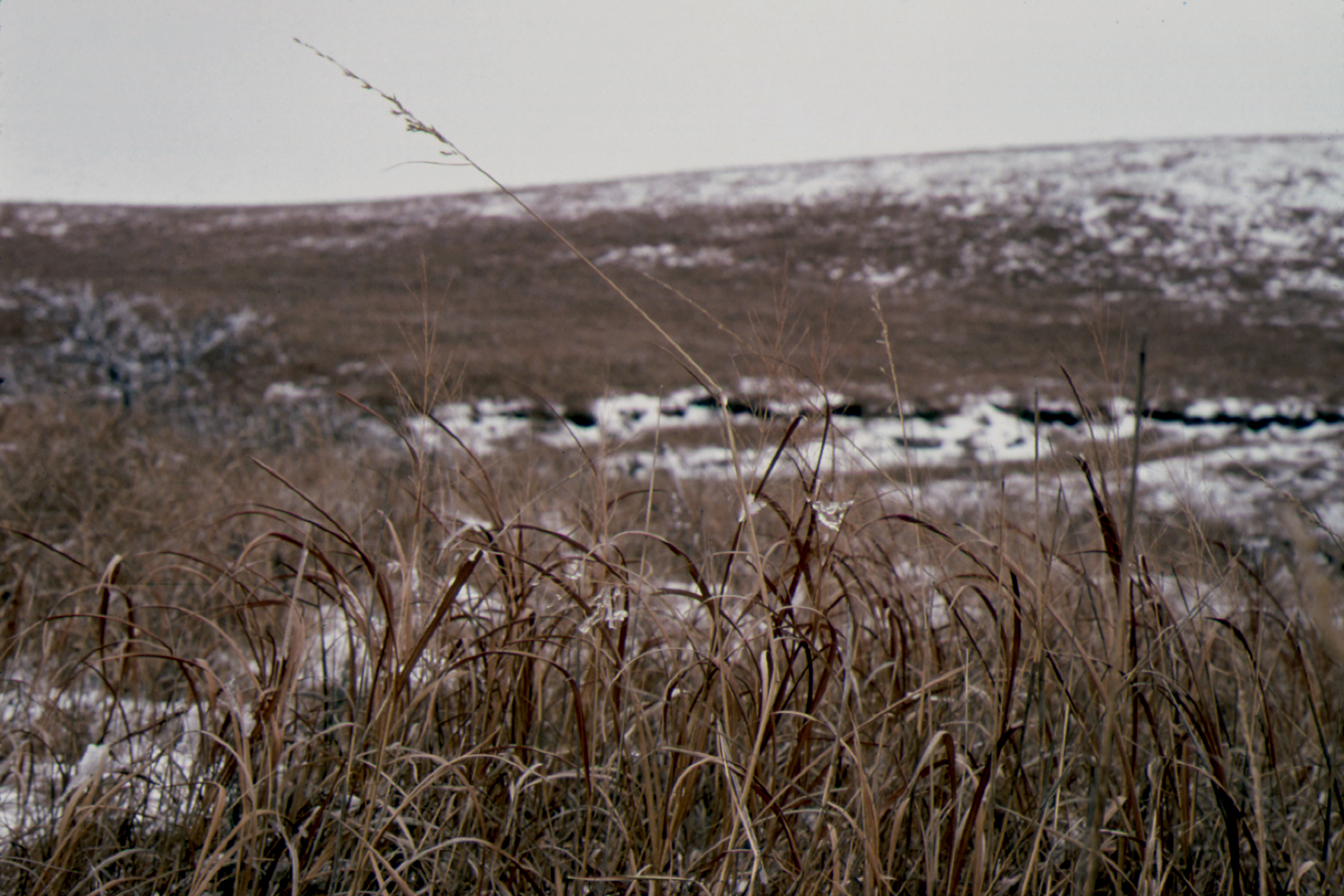 View of the konza prairie, 1,000 acres of virgin tallgrass prairie near manhattan, kansas, in the winter showing a typical overcast sky. In the foreground is indian grass [Sorghastrum nutans], a major prairie tallgrass. The mood and look of the prairie changes drastically from season to season. (See slides #14736 through #14739 for a look at the prairie which was green in august despite an extreme drought the depth of the roots of the grasses maintain the plants' food.)